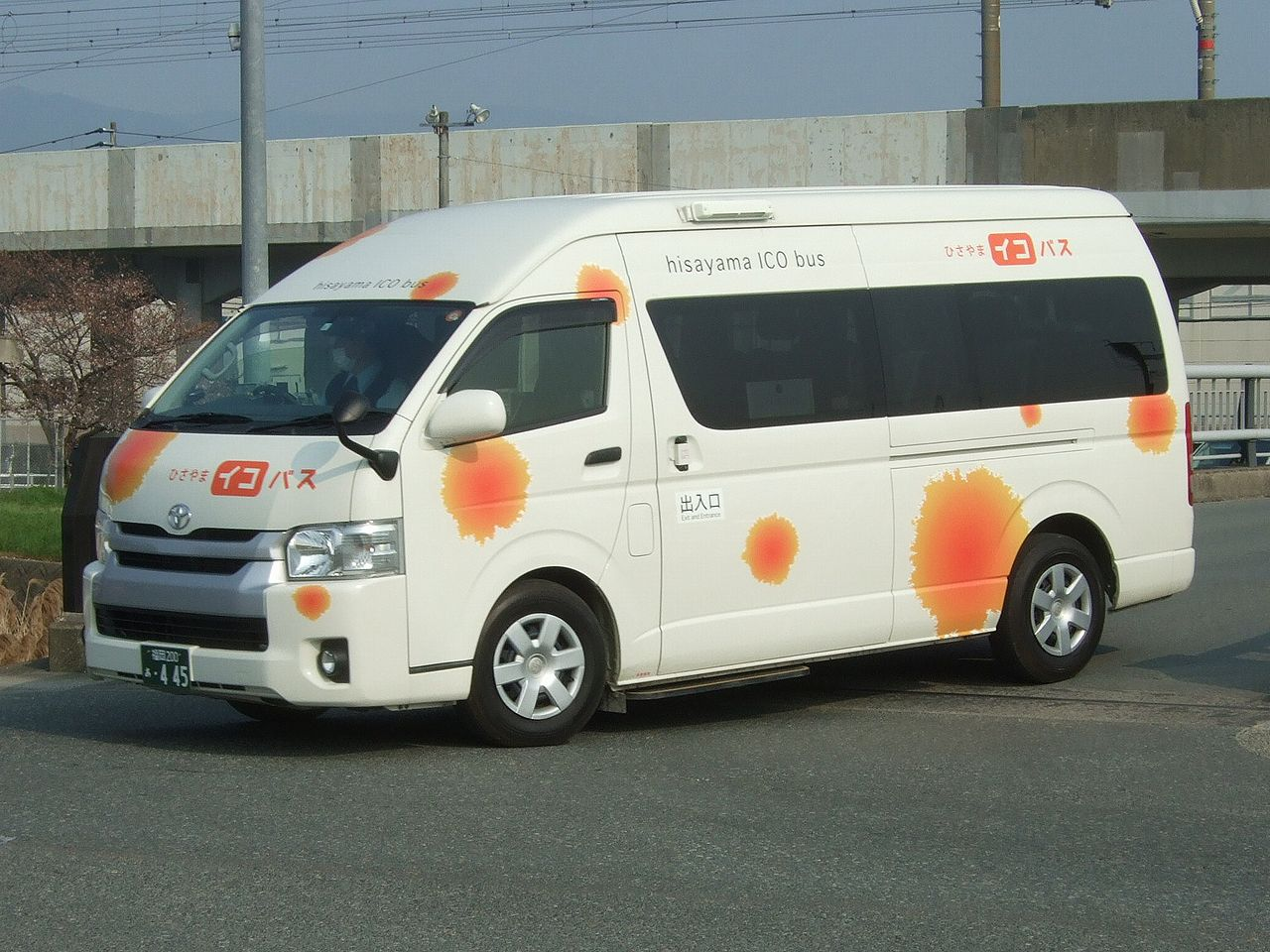 Hisayama Town community bus "Iko-Bus" Company:Kyowa Taxi Use:transit bus (community bus) Car license:FOF200 A 445 Chassis:Toyota HiAce Location:In Hisayama Town, Fukuoka, Japan.